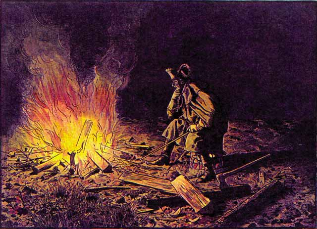 Painting of Carl Röchling (1855–1920) showing King Frederick II of Prussia in the night before the Battle of Liegnitz (15th August 1760) during the Seven Years War (1756-1763)